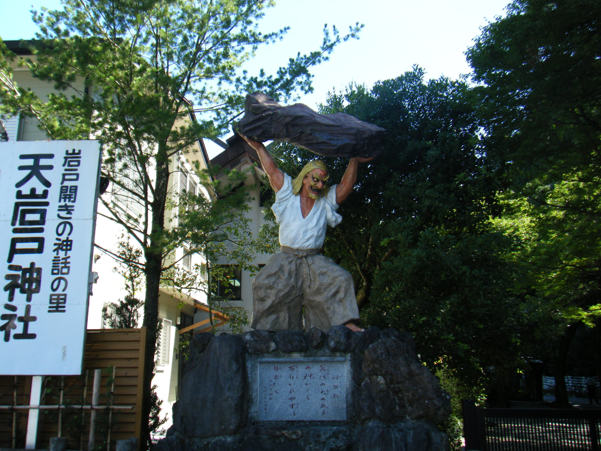 Tajikarao